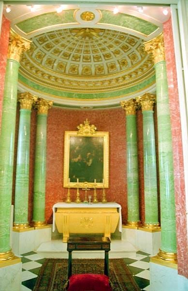 Warsaw Royal Castle